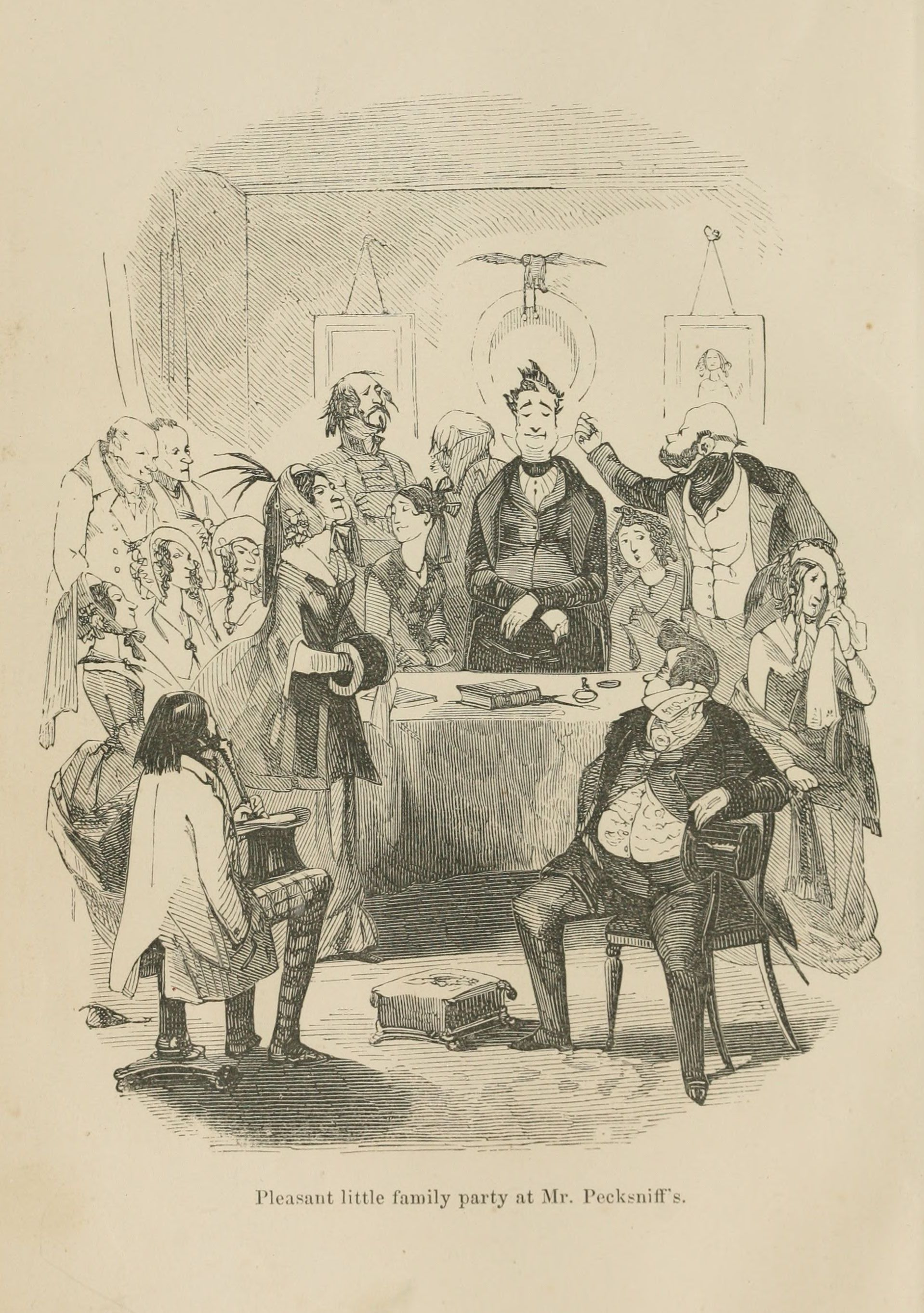 Martin Chuzzlewit by Ch. Dickens - The Family Reunion at Pecksniff's ("Pleasant little family party at Mr. Pecksniff's")